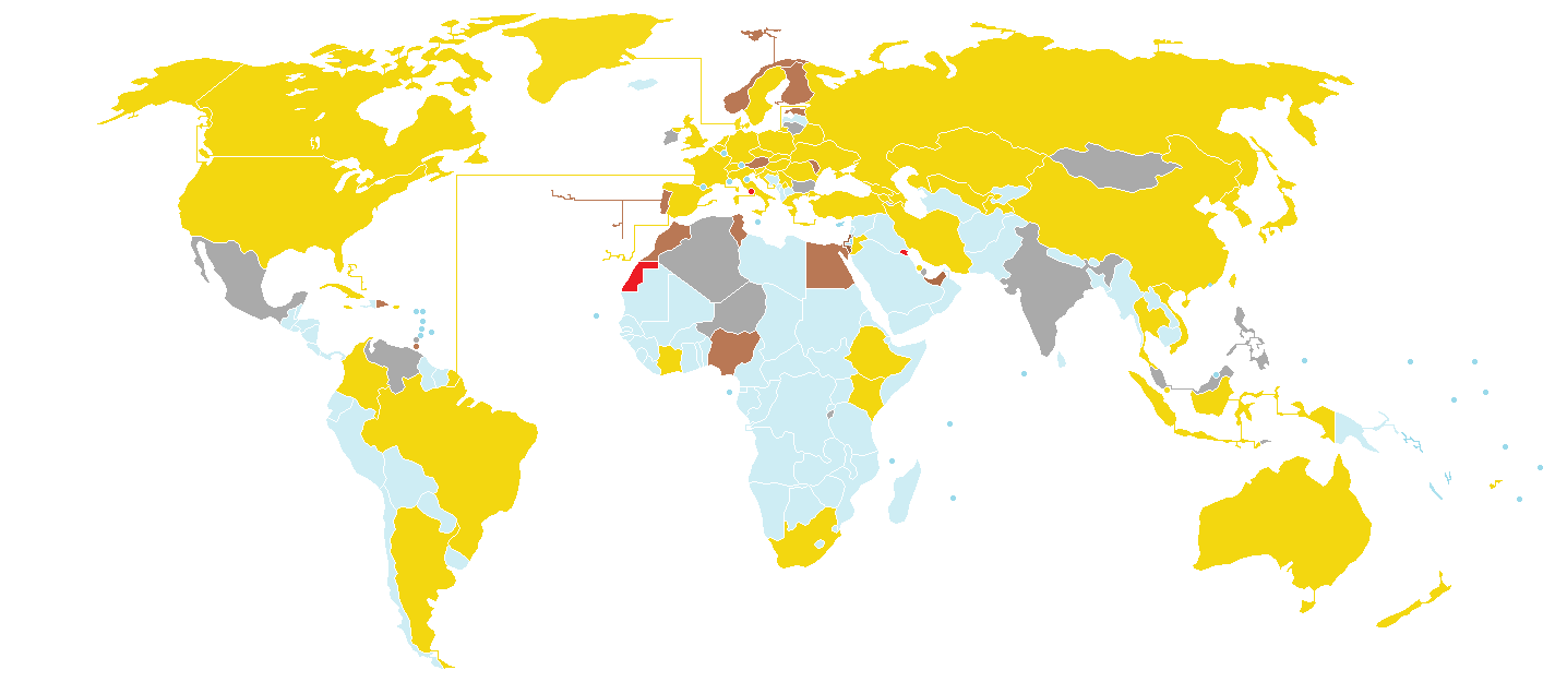 Map of the world showing the achievements of each country during the 2016 Summer Olympics in Rio, Brazil. Based on Blank world map Image:BlankMap-World-v5.png. Gold for countries achieving at least one gold medal. (Slovakia won Gold several edits ago but has yet to be coloured as such) Silver for countries achieving at least one silver medal. Brown for countries achieving at least one bronze medal. Blue for countries that did not win a medal. Red for countries/territories that did not participate.